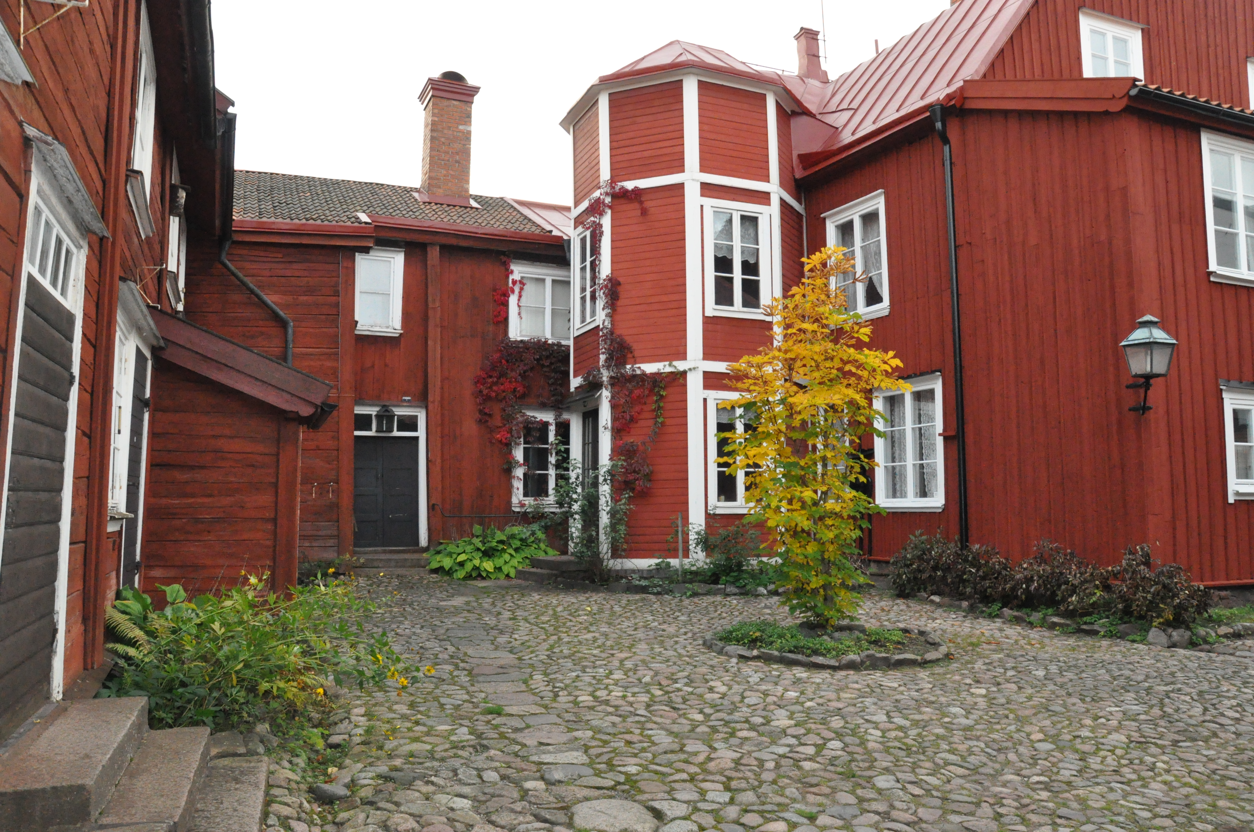 Eksjö Aschanska gården